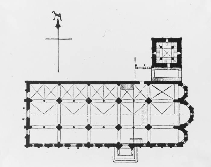 The plan of Modena cathedral